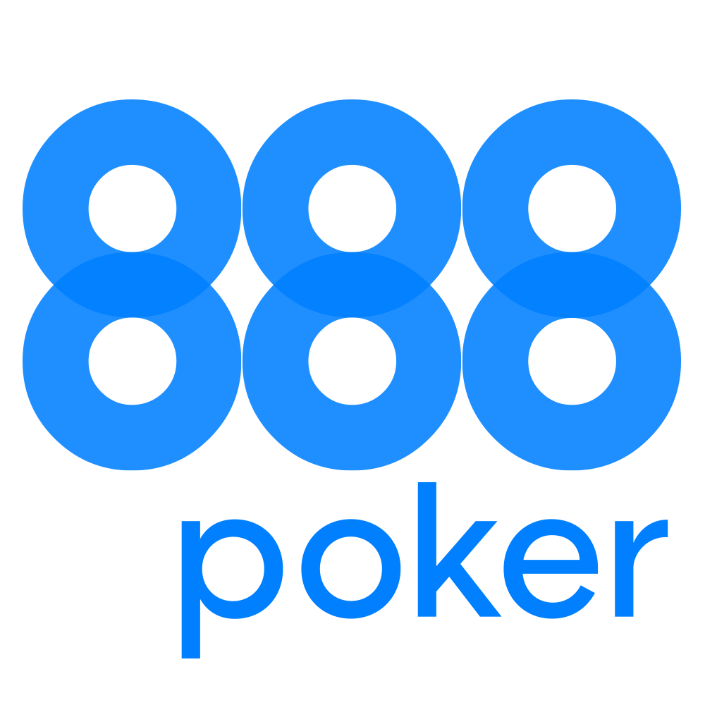 The Menjadi bandar ceme dalam permainan ceme online.